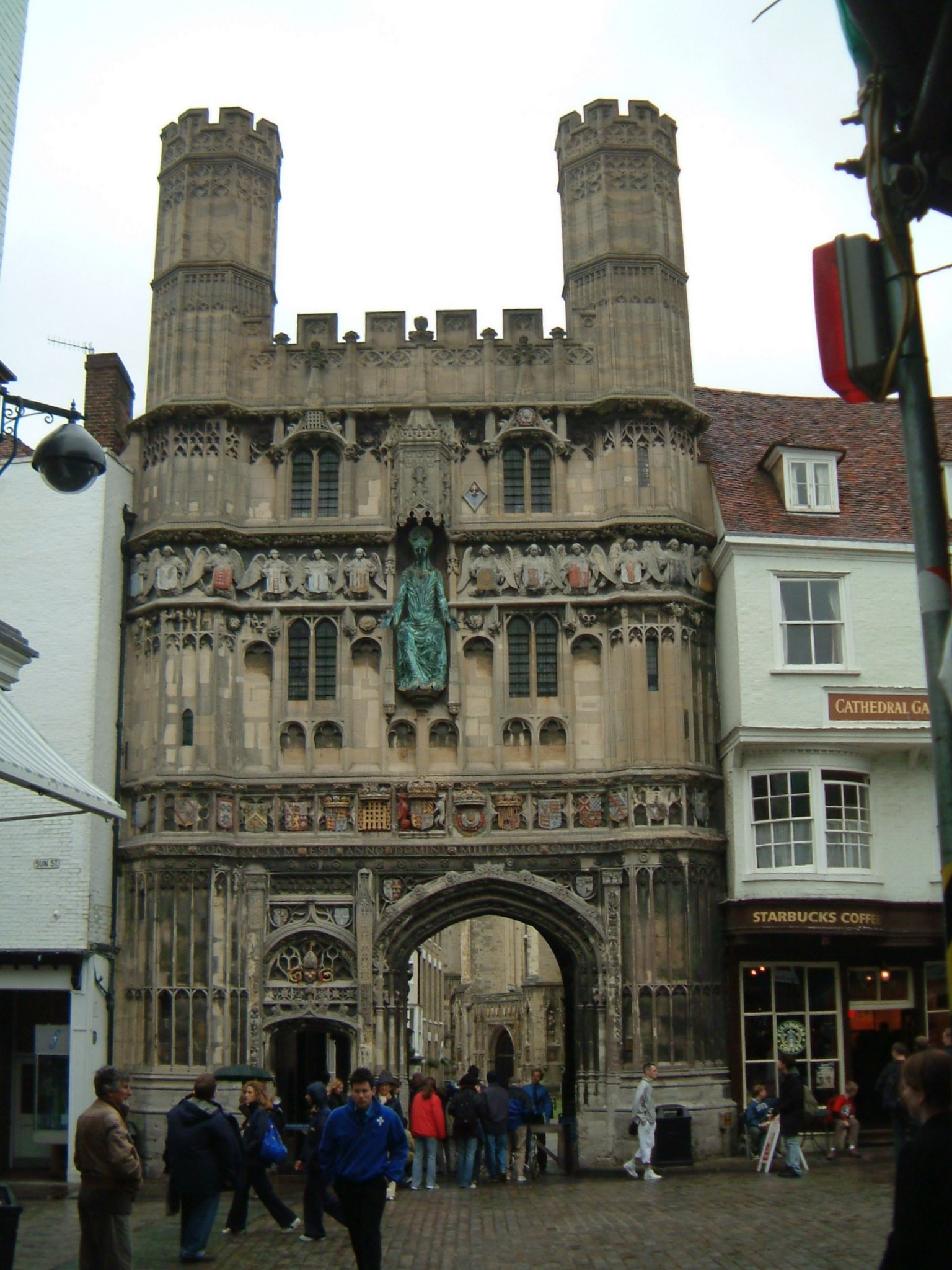 Canterbury - Christ Church Gate, entrance to Canterbury Cathedral complex